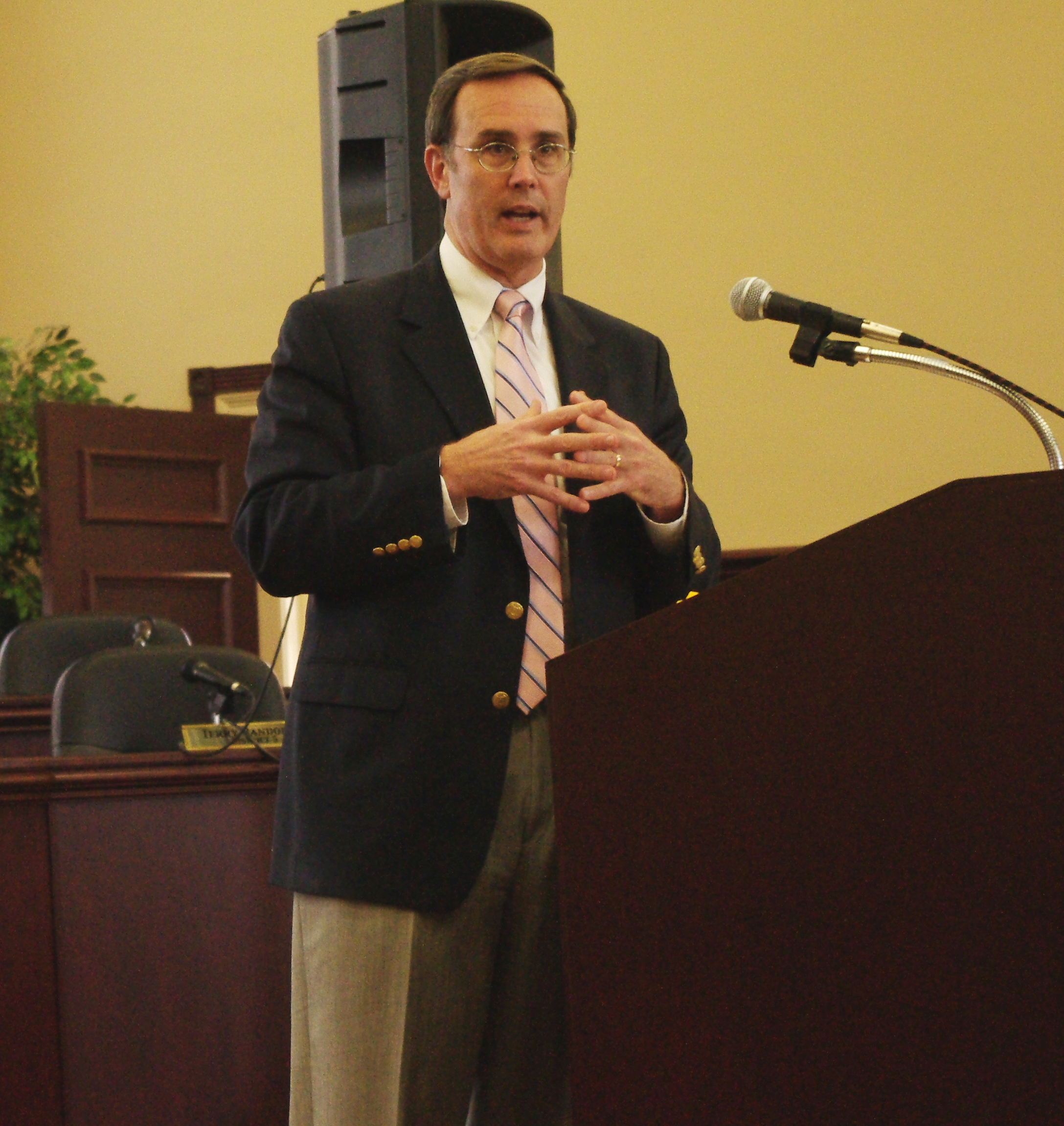 Former Tennessee state senator David Fowler speaking at a Putnam County Right to Life meeting in Cookeville, Tennessee, USA.